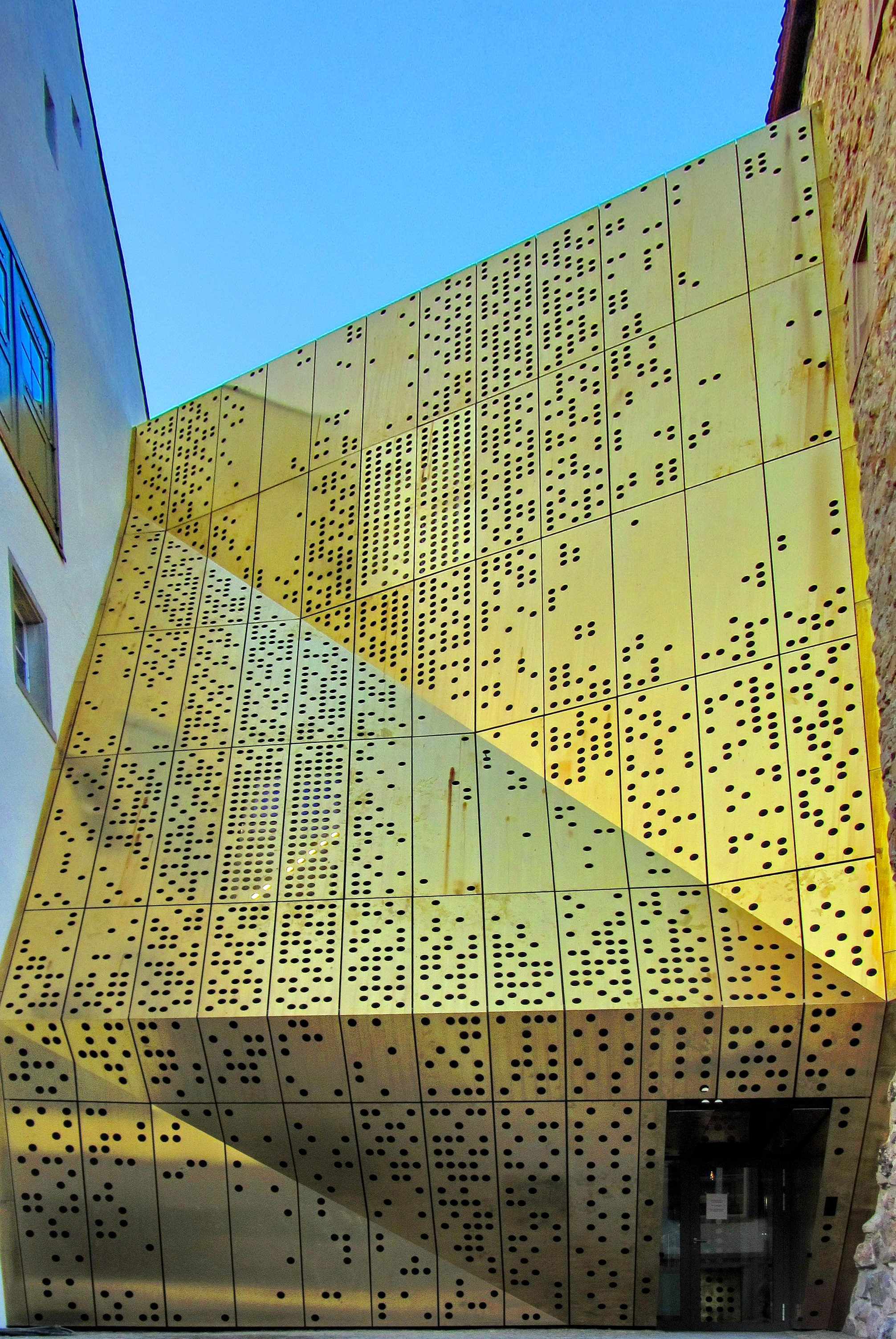 Renewal in 2010/11 of the Stadtmuseum buildings in Rapperswil (Switzerland)